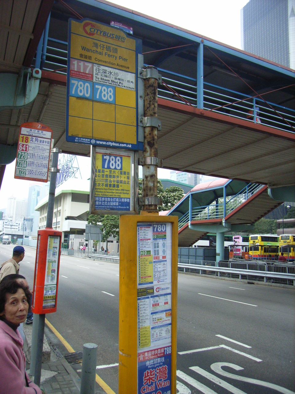 HK Wanchai Star Ferry piers bus stop